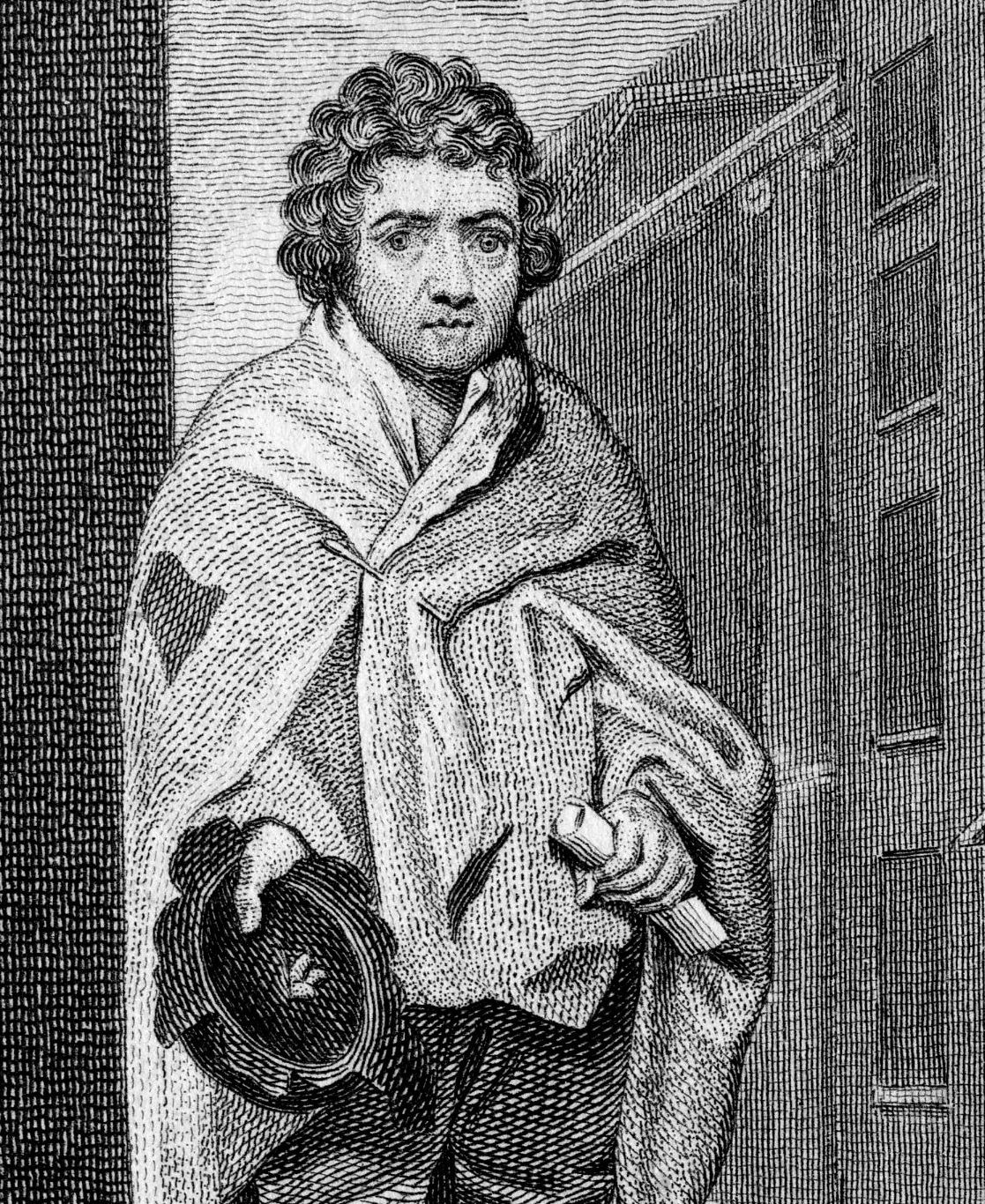 Edward Anthony Fox as Teague in 1792 - Husband of Mrs Rock